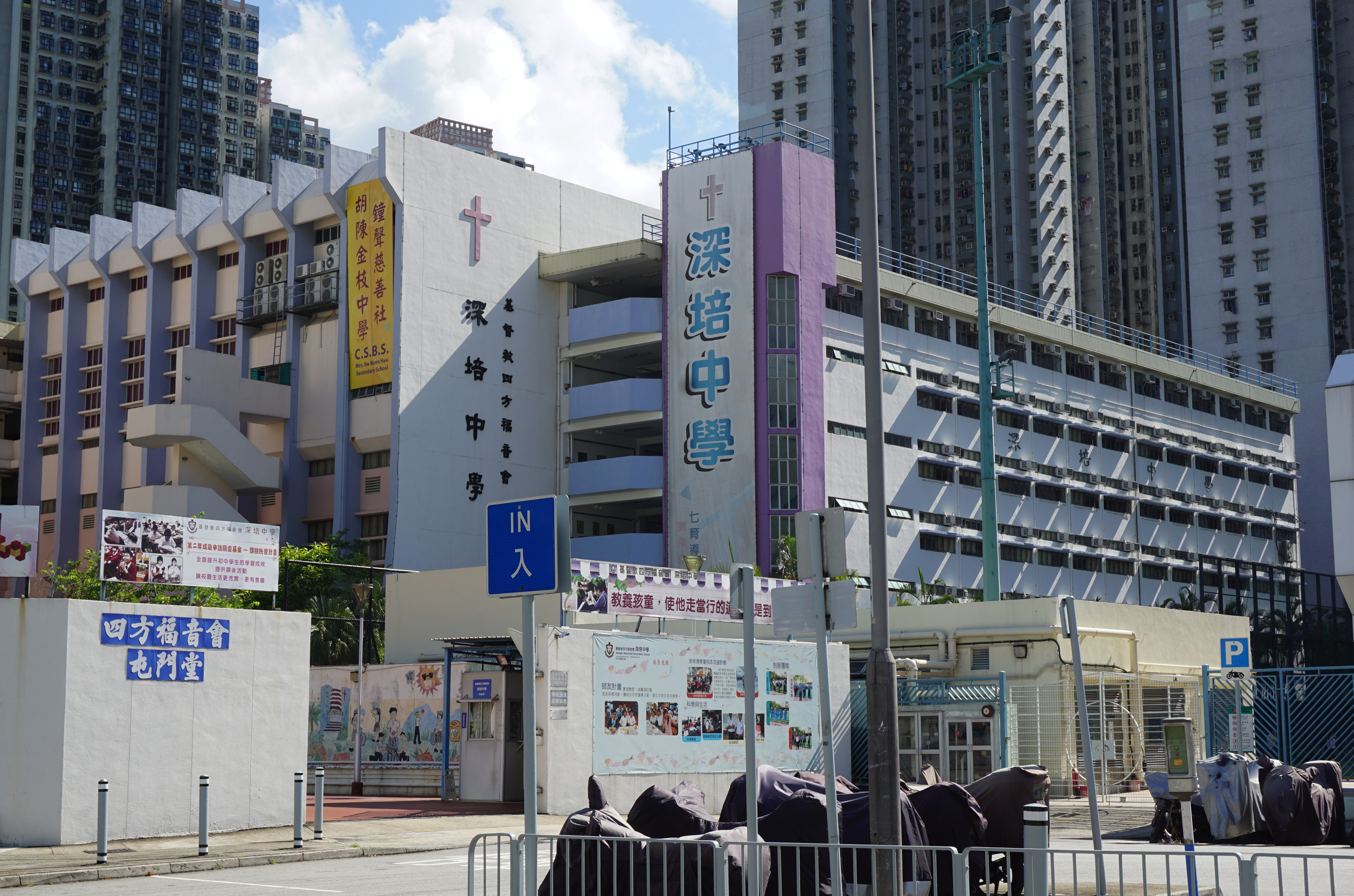 Semple Memorial Secondary School in Tuen Mun, Hong Kong.